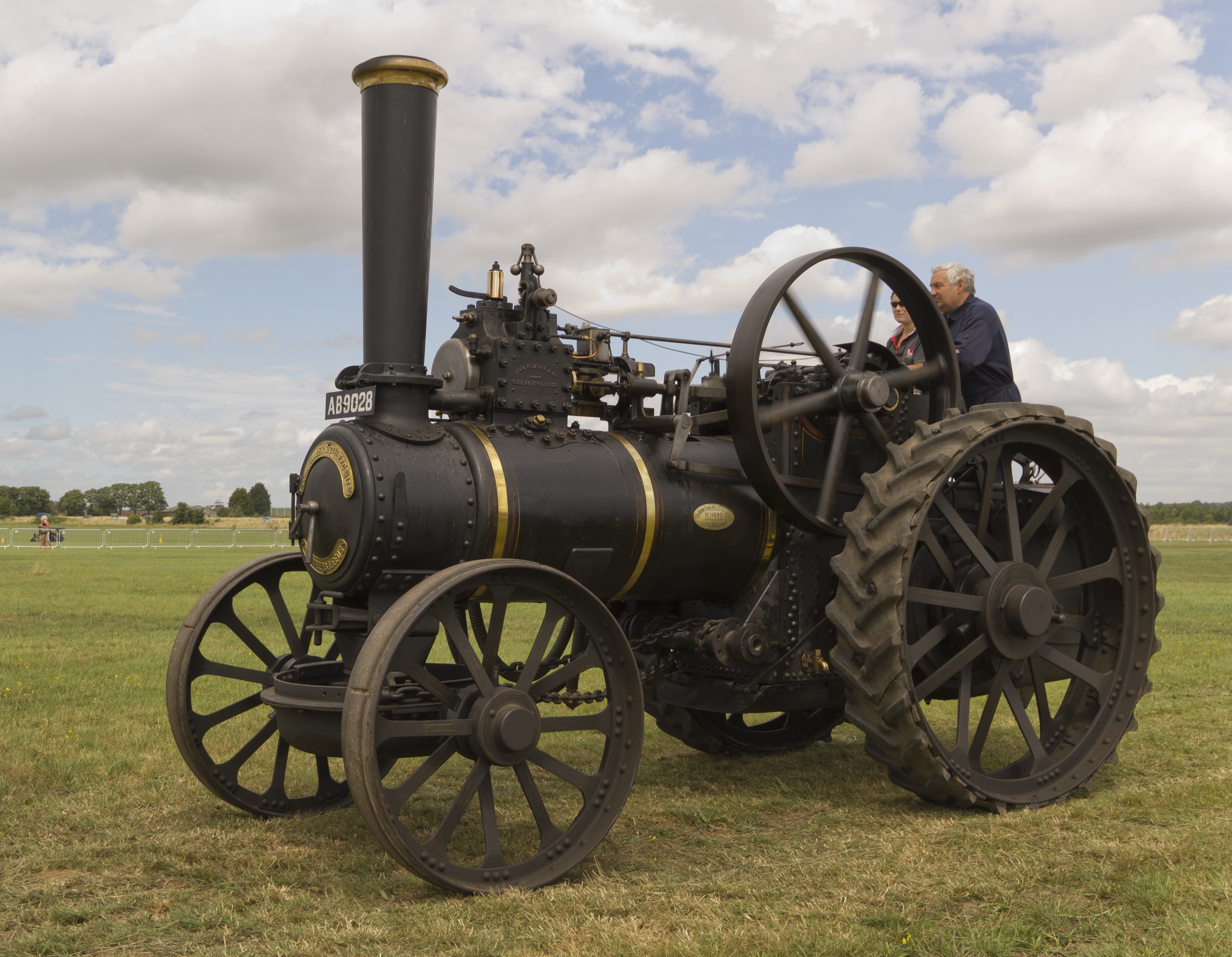 Gloucestershire Steam & Vintage Extravaganza 2013 John Fowler Traction Engine "Pride of Hanley Castle" AB 9028